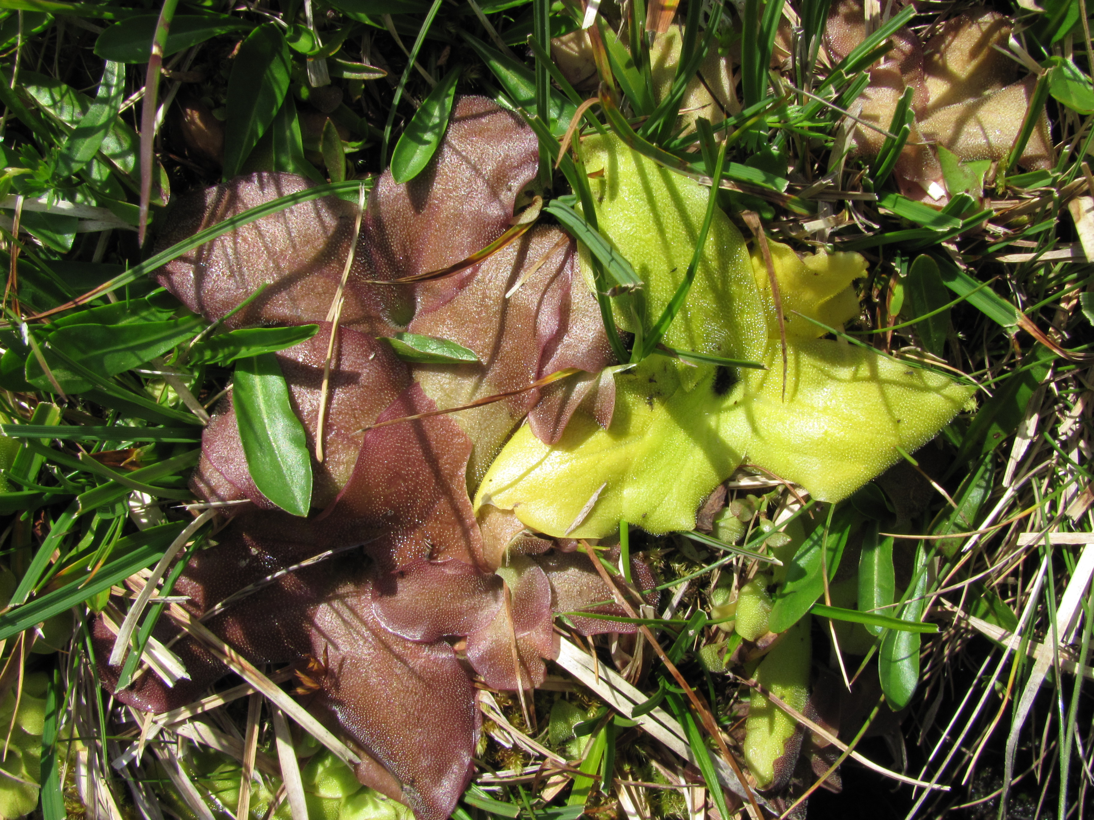 Red and white variant of pinguicula balcanica